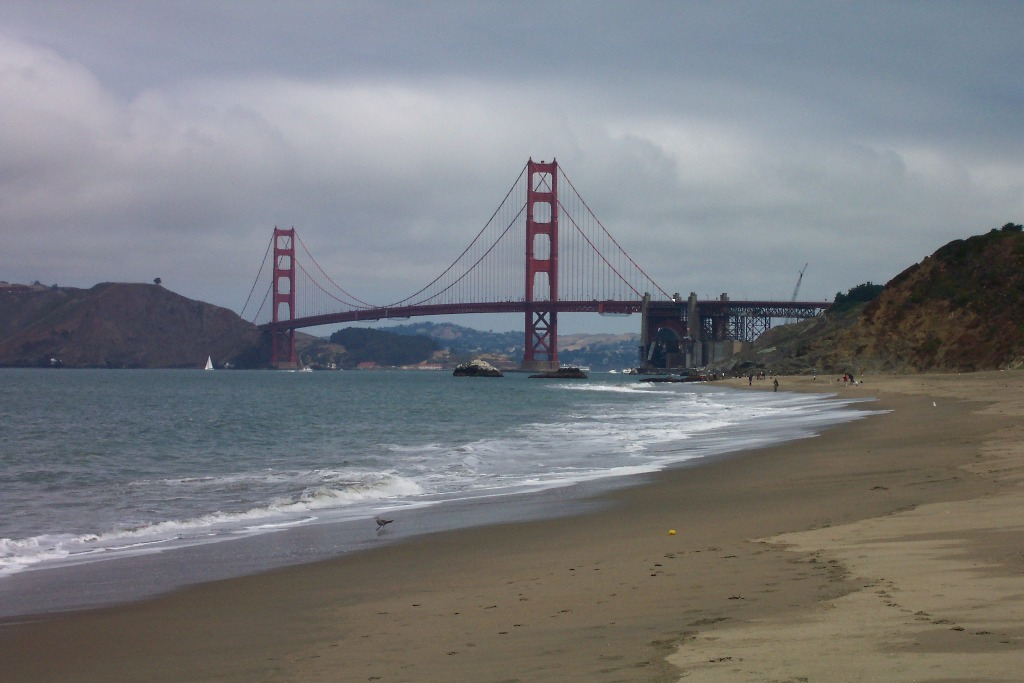 Baker Beach, San Francisco.